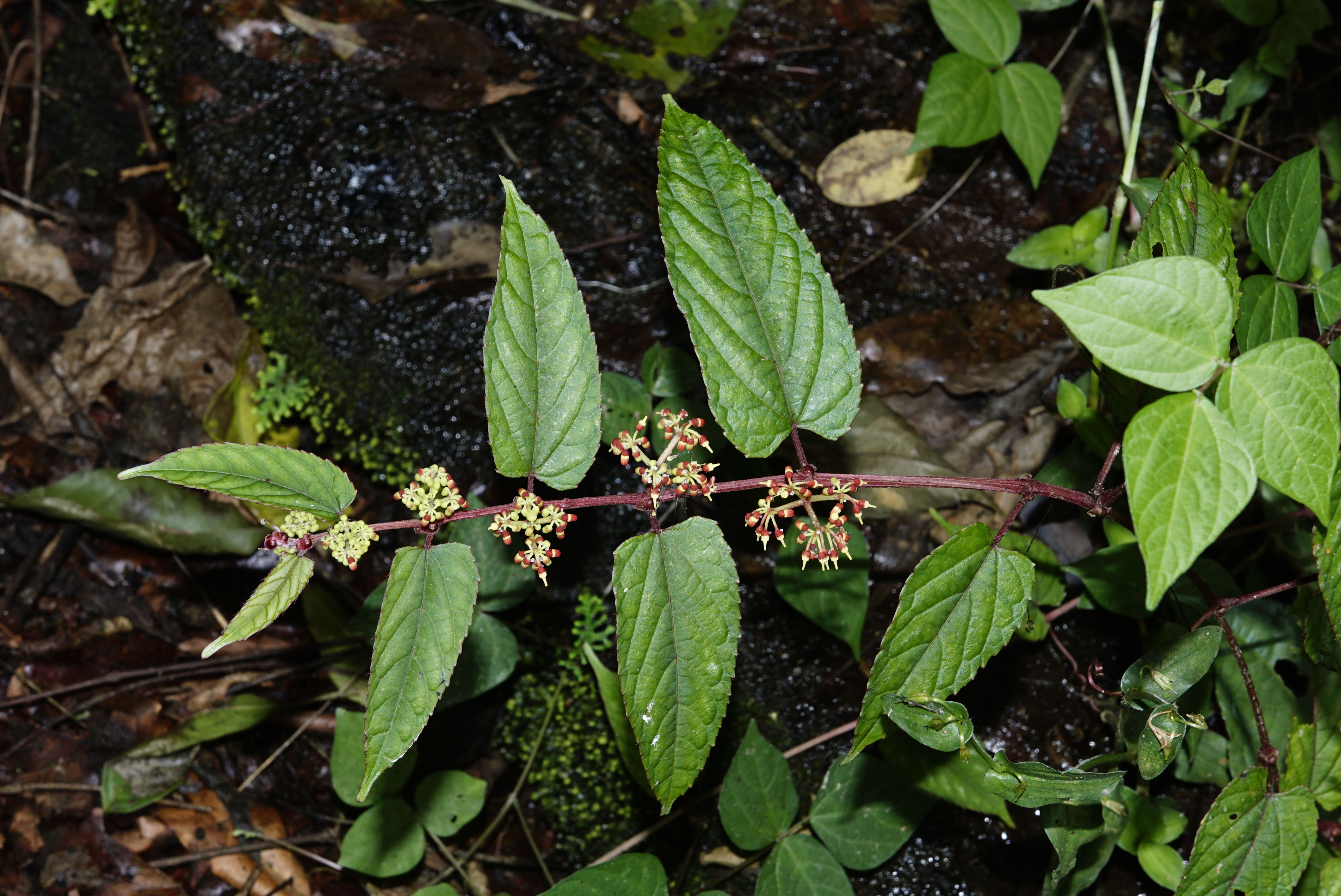 Cissus bicolor